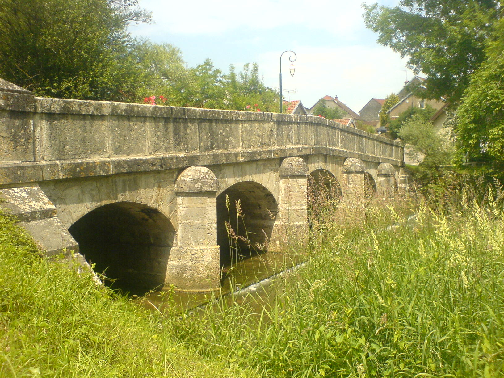 Bridge in Dampvalley-lès-Colombe, Haute-Saône, France.